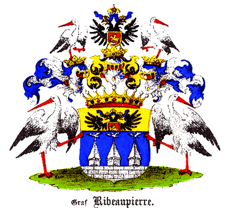 Coat of Arms of Ribeaupierre family